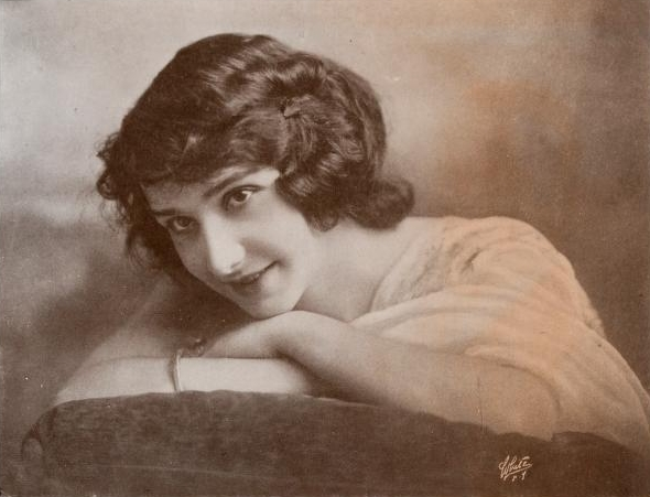 Actress Alice Hollister (1886-1973) on the Motion Picture Story Magazine